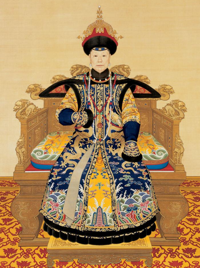 Empress XiaoSheng, 1751, by anonymous court artists. Hanging scroll, colour on silk. 230.5×141.3 cm. The Palace Museum, Beijing.